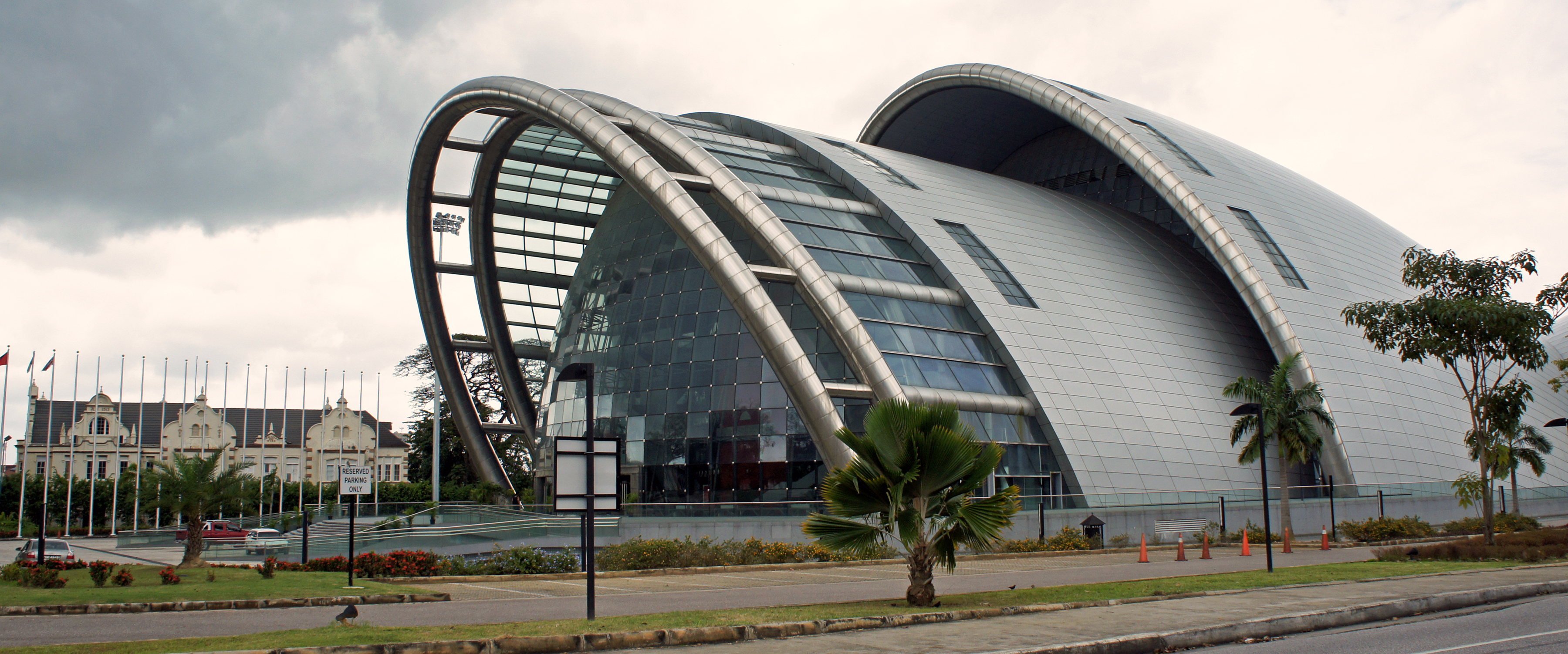 Academy for the Performing Arts, Port of Spain, Trinidad and Tobago